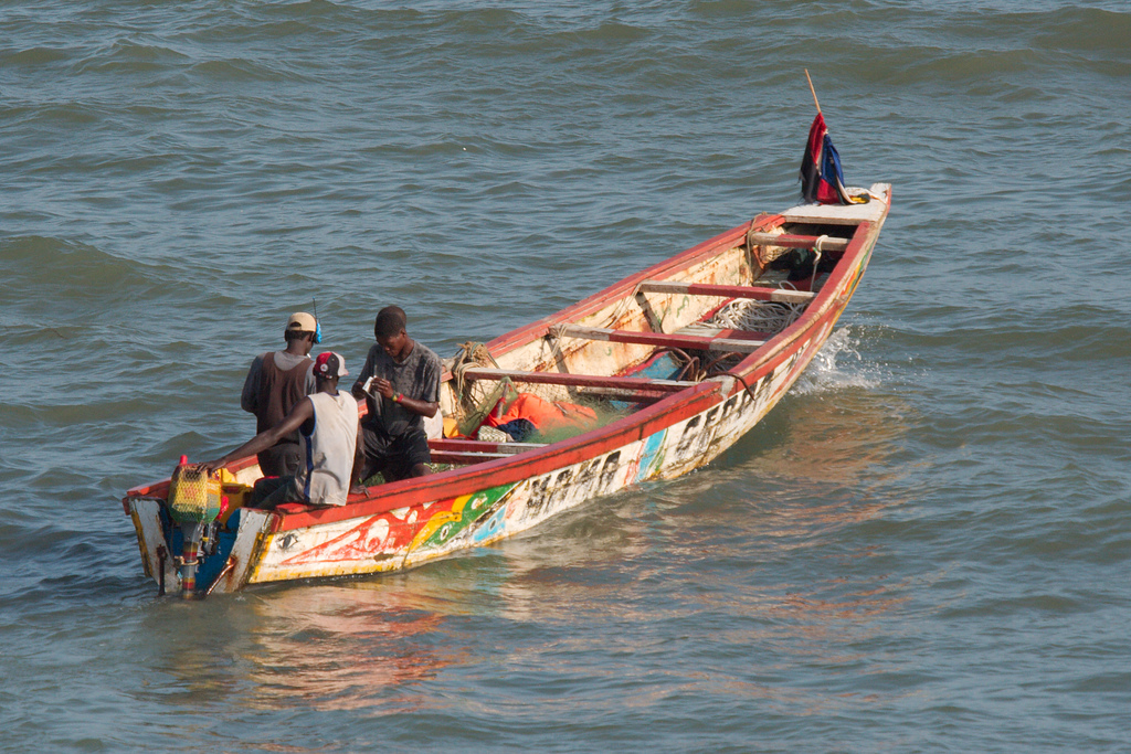 Brightly-painted fishing boat, Bakau, The Gambia, 2007